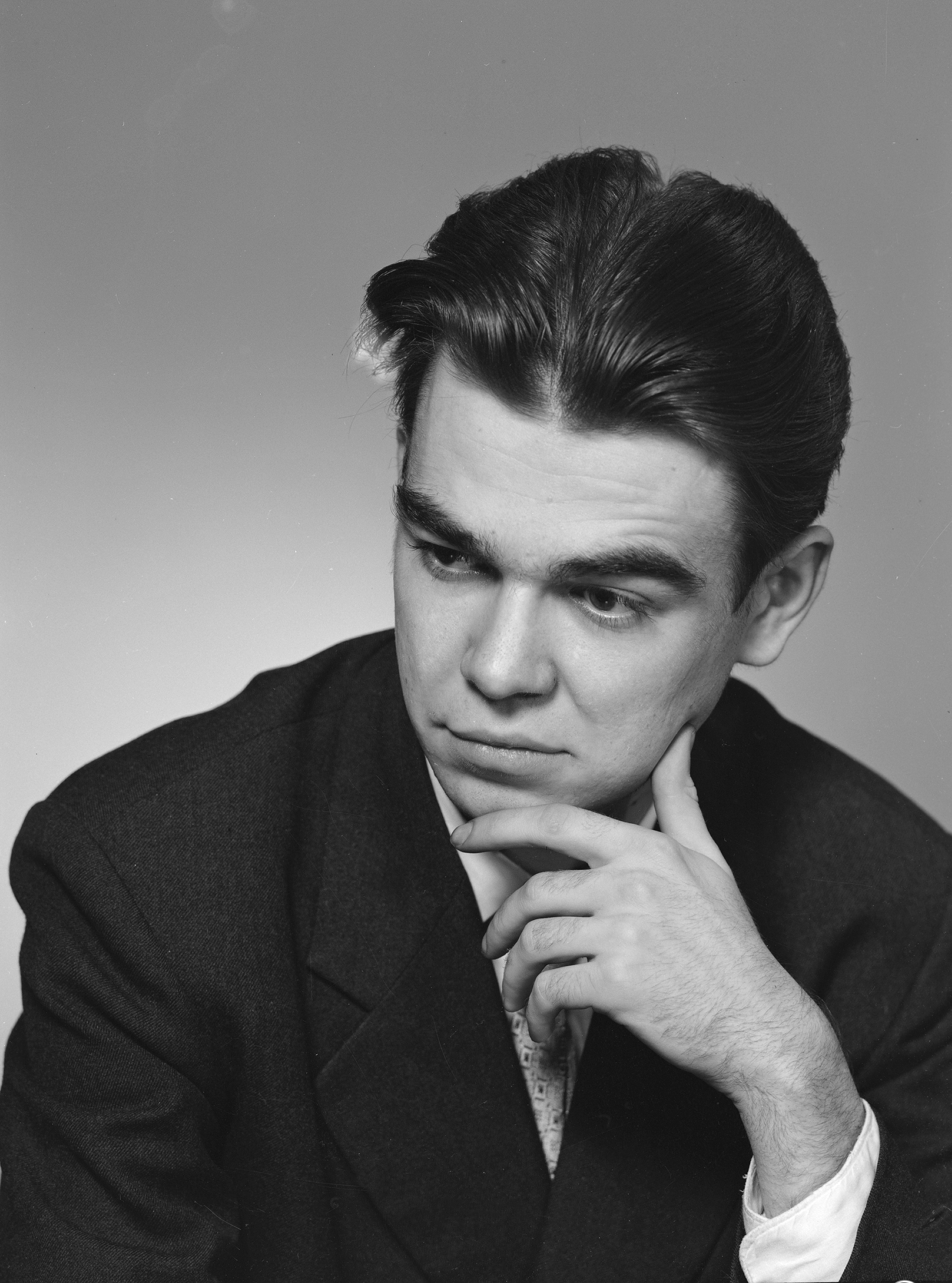 Pentti Saarikoski, a Finnish poet, writer and translator